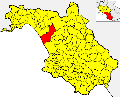 Locator map of the municipality of Eboli (red) within the Province of Salerno